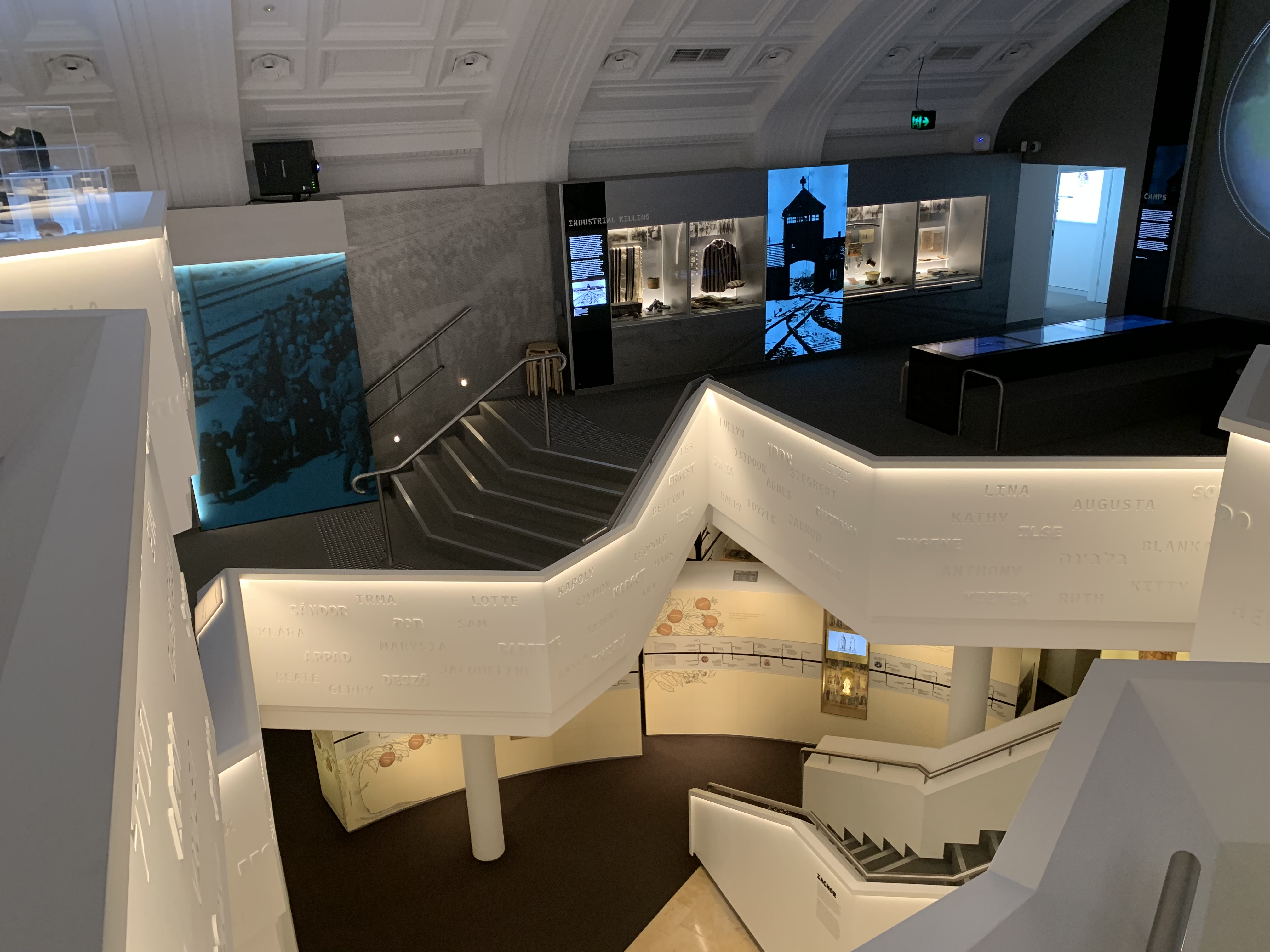 Interior photograph of Holocaust exhibition